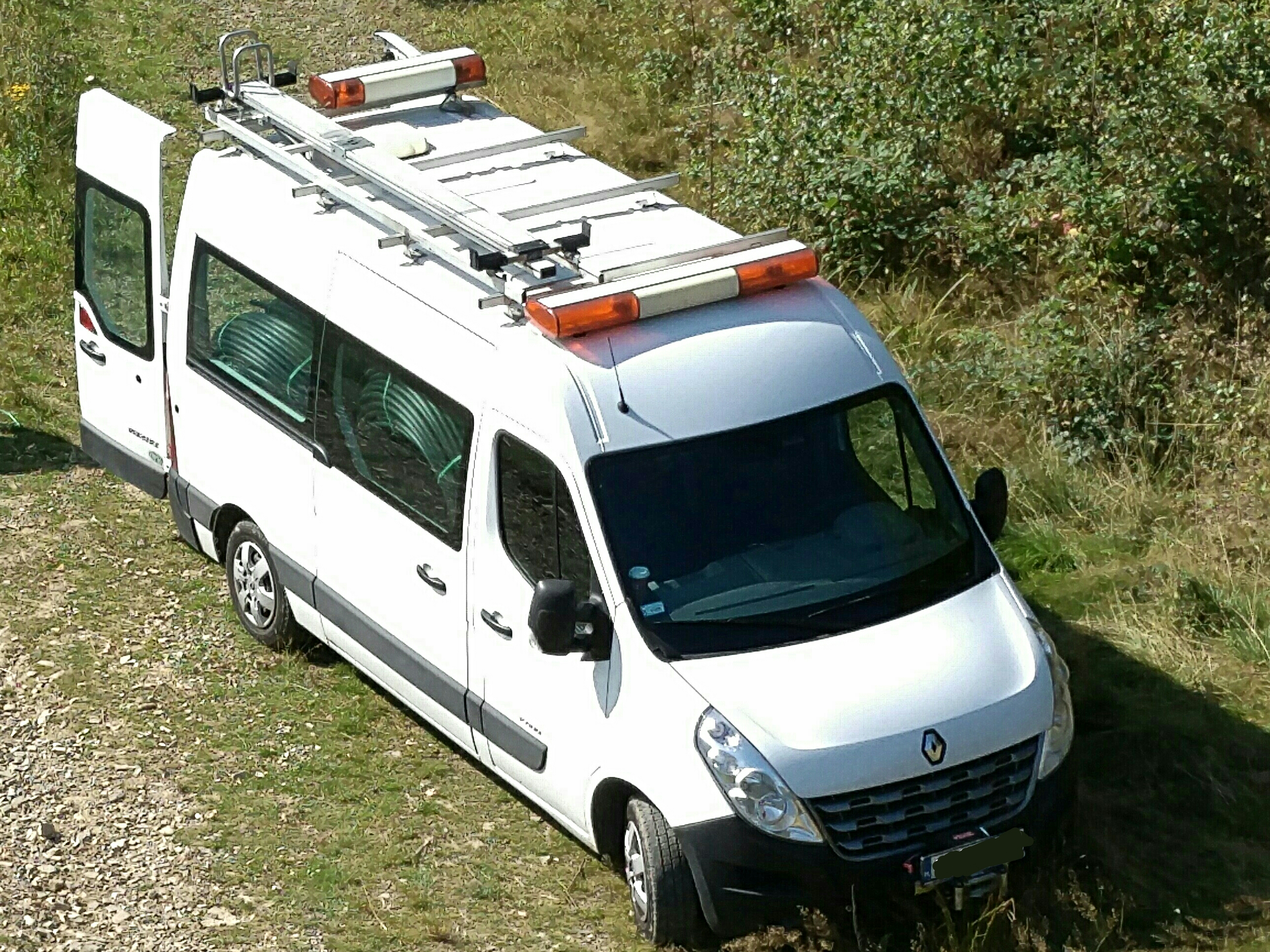 Renault Master III in Poland